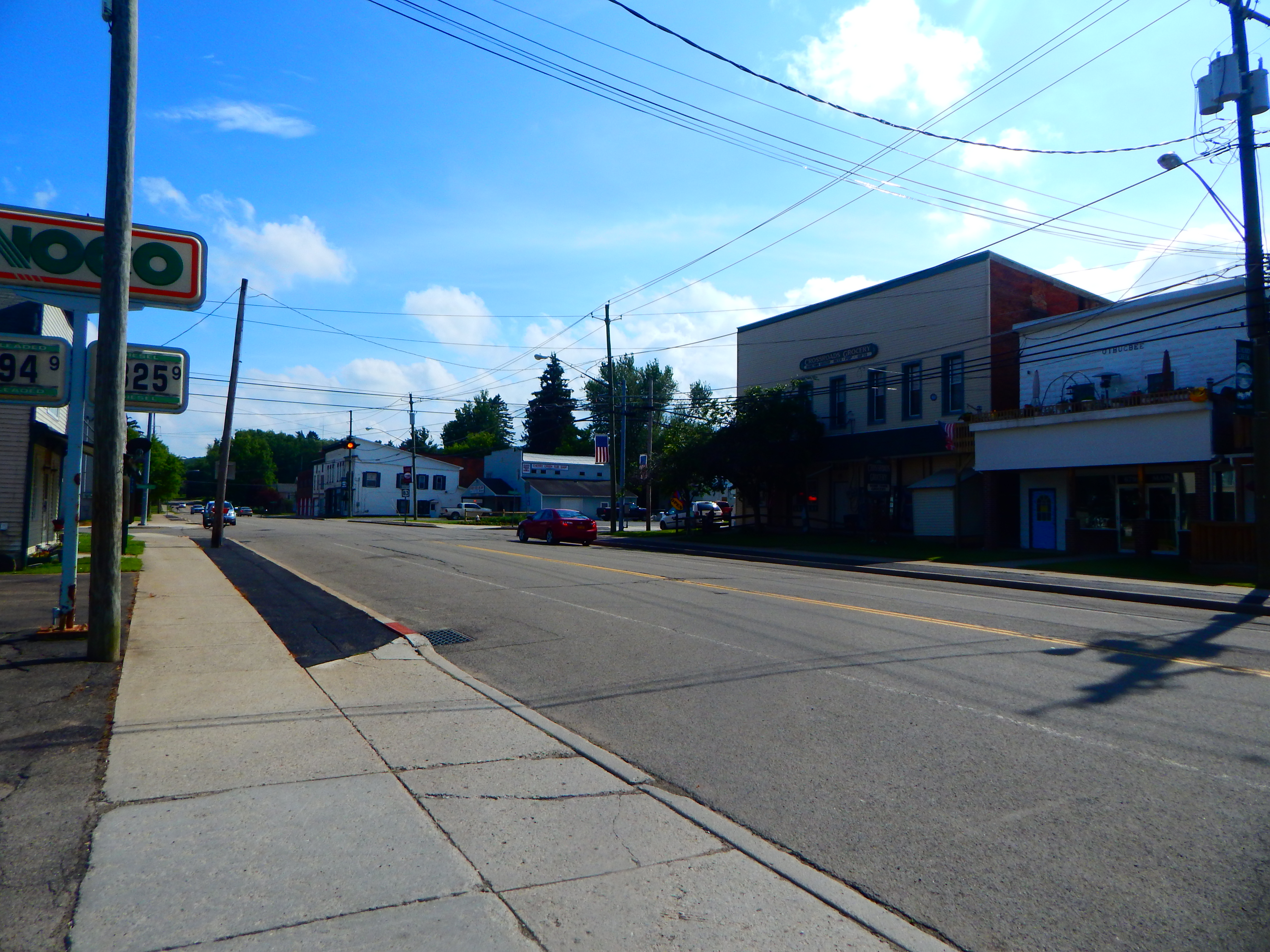 Route 83 through Cherry Creek, New York.